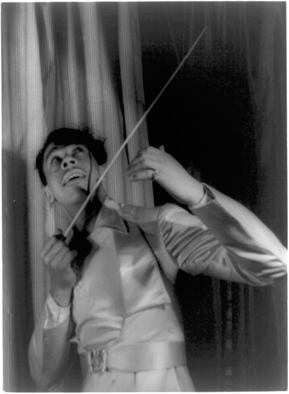 Cab Calloway photographed by Carl Van VechtenCab Calloway